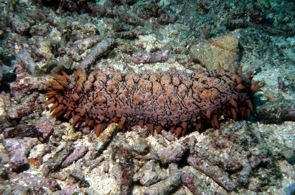 Sea cucumber, possibly Thelenota ananas, Fiji.